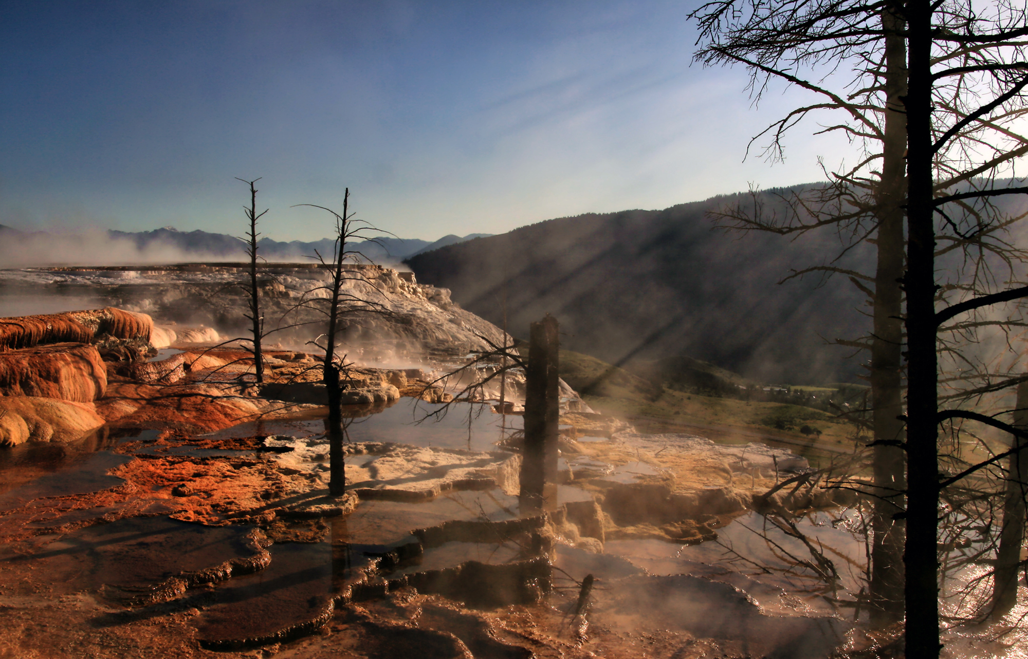 Dead trees in the terraces of Canary Spring at Mammoth Hot Springs, Yellowstone National Park grew during inactivity of the mineral-rich springs, and were killed when calcium carbonate carried by spring water clogged the vascular systems of the trees. Crepuscular rays are seen in the steam emerging from the hot springs.